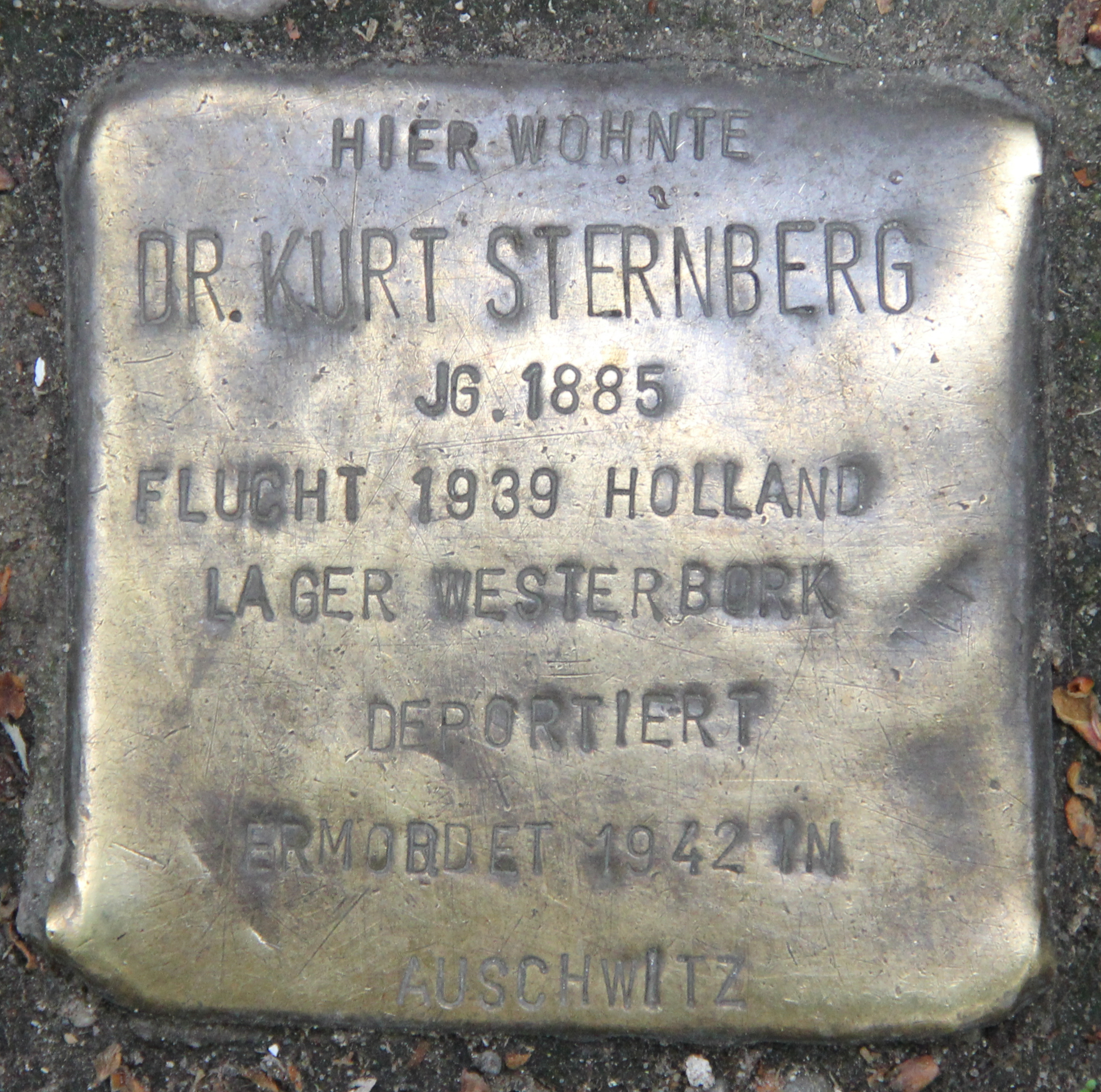 "Stolperstein" (stumbling block), Kurt Sternberg, Uhlandstraße 175, Berlin-Charlottenburg, Germany